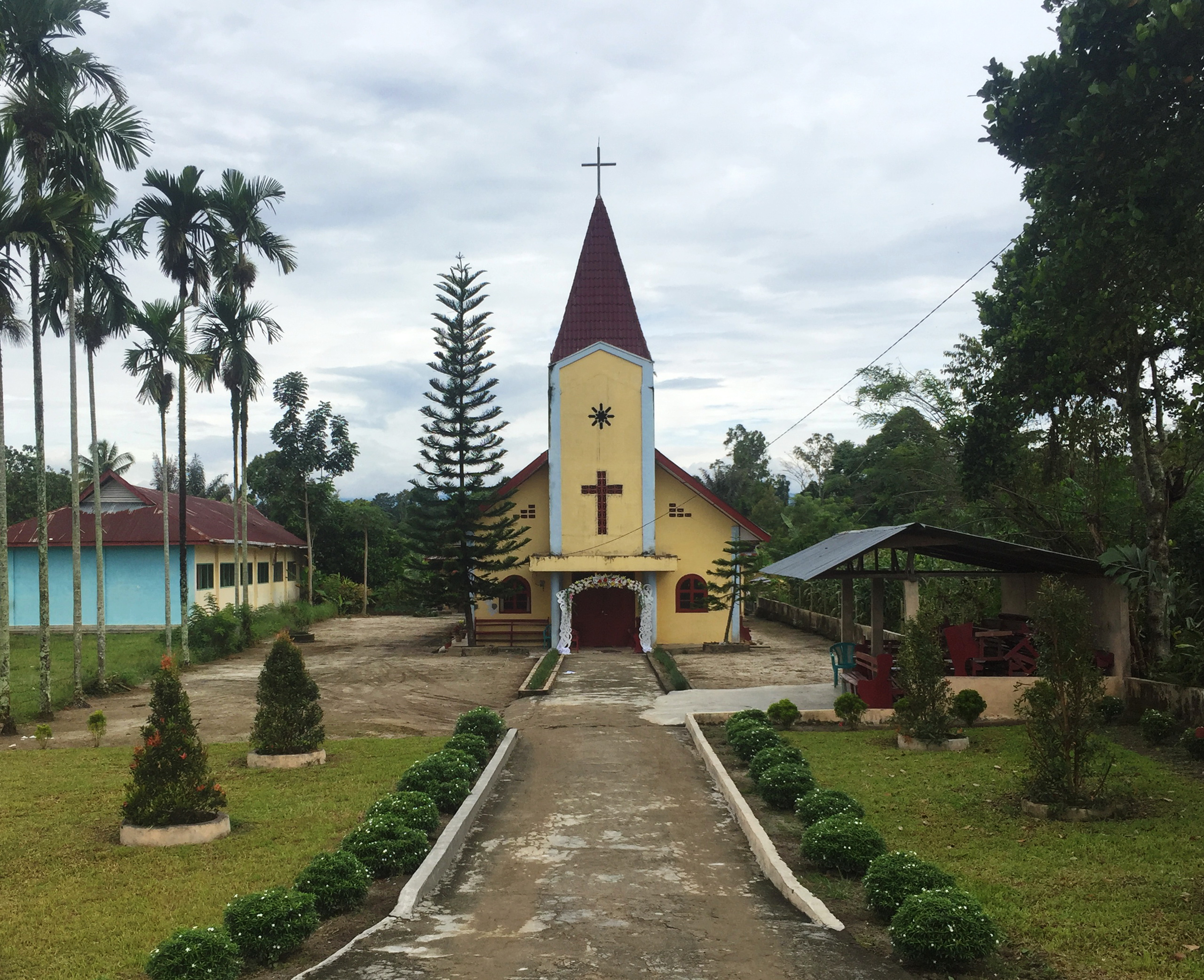 HKBP Lumban Holbung, church in Pagar Pinang, Jorlang Hataran, Simalungun